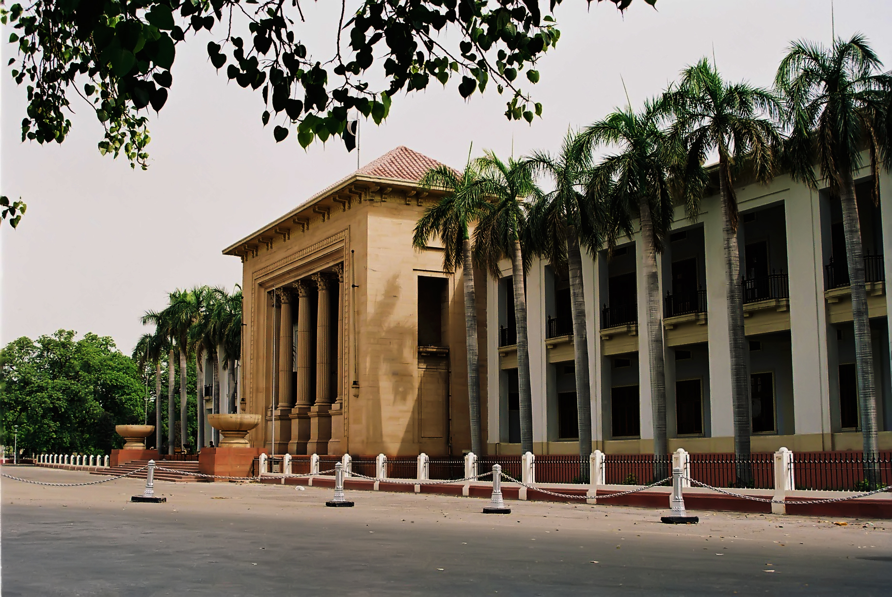 Punjab Assembly This is a photo of a monument in Pakistan identified as the PB-P-58